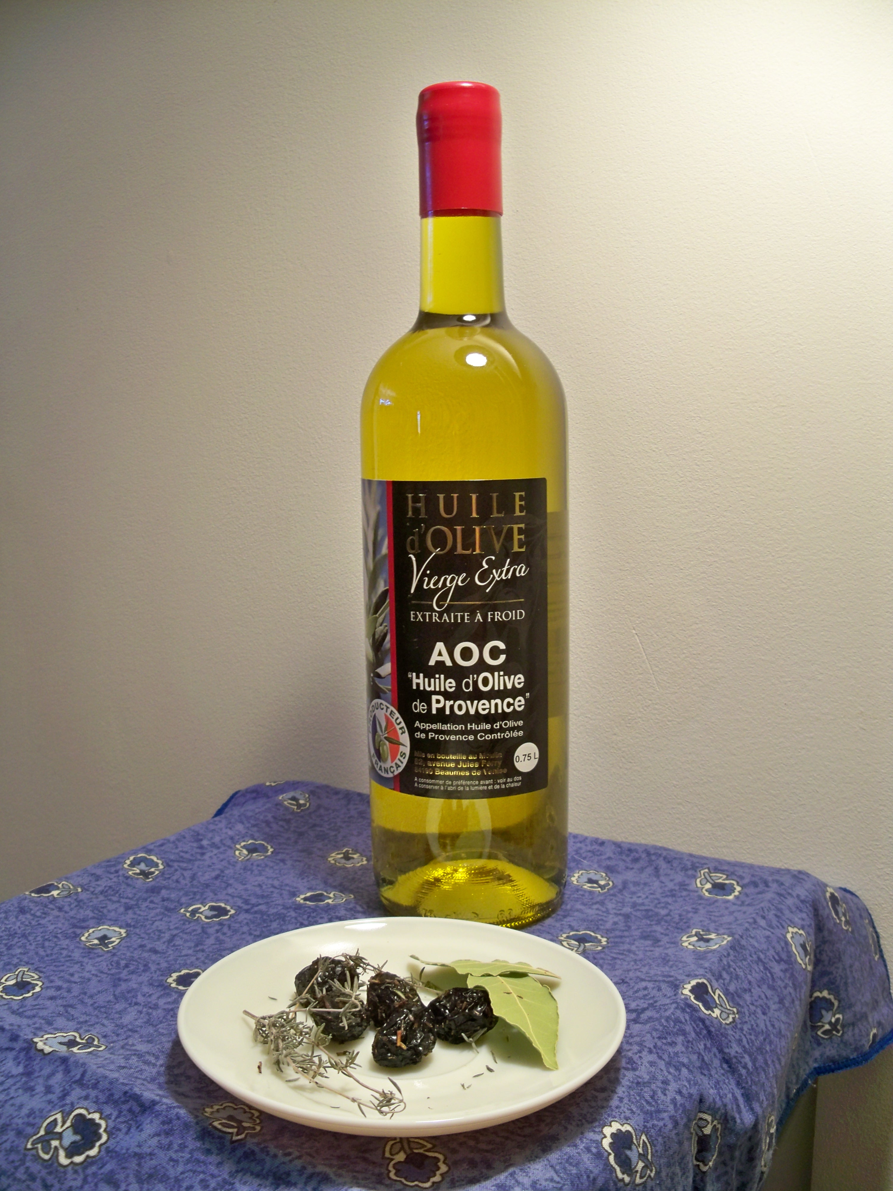 Oil oil AOC of provence, from a mill in Beaumes-de-Venise, Vaucluse, France